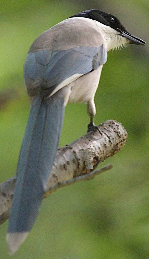 azure-winged magpie, Japan, Tsukuba, wild, 2007